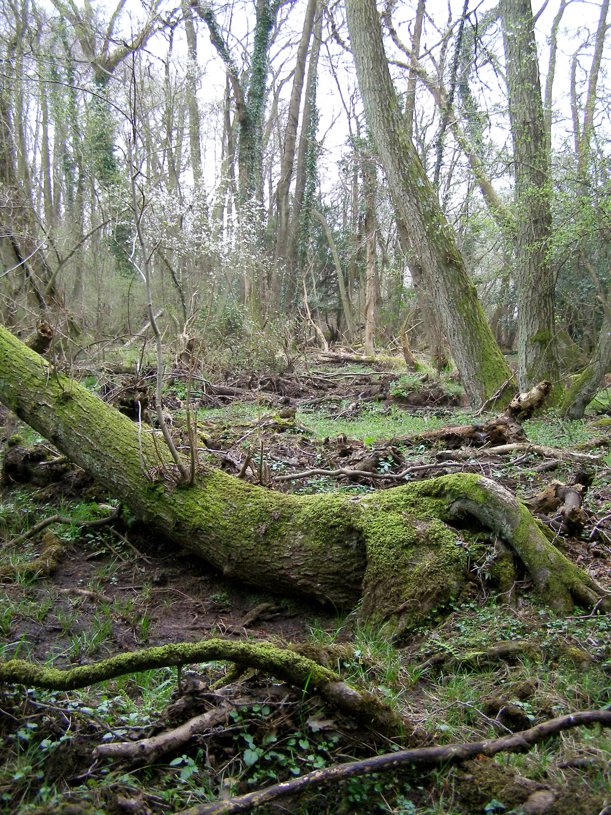 The alder carr near Kings Passage, Matley Bog